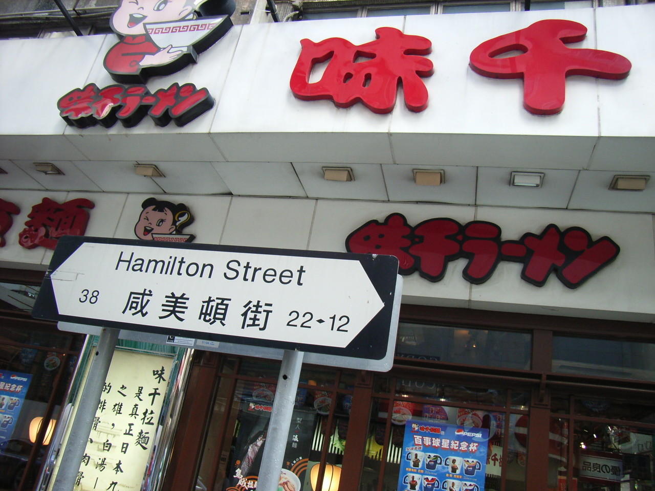 Hamilton Street, YTM, Kln Photo by TonySKTO